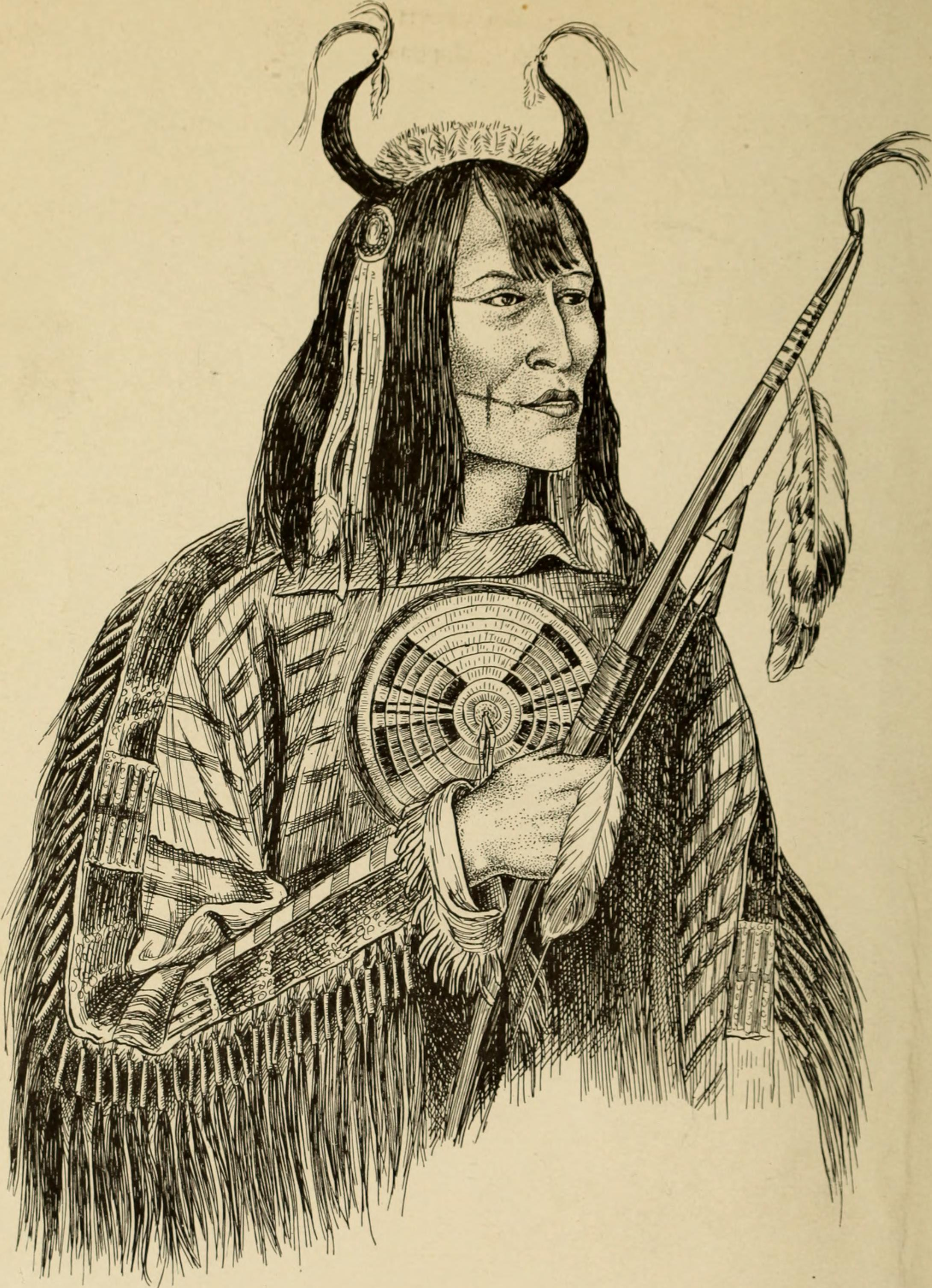 Title: North American Indians of the Plains Year: 1920 (1920s) Authors: Wissler, Clark, 1870-1947 Subjects: Indians of North America Publisher: New York : American Museum of Natural History Text Appearing Before Image: 100074428 Text Appearing After Image: Assiniboin Warriob(After Maximilian.) AMERICAN MUSEUM OE NATURAL HISTORY NORTH AMERICANINDIANS OF THE PLAINSnorthamerican11wiss